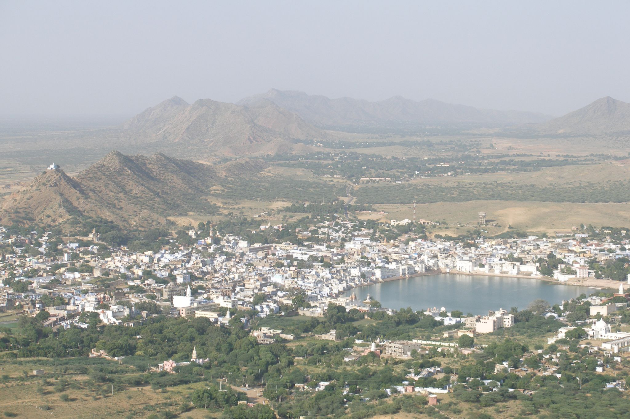 Pushkar city, viewed from hill (where Savitri temple is), Rajasthan.